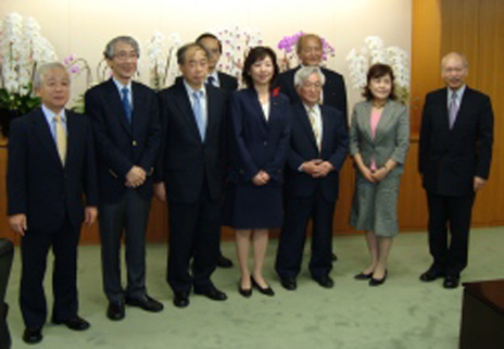 Makoto Kobayashi, Executive Director of Japan Society for the Promotion of Science, and Toshihide Masukawa, Professor of the Faculty of Science, Kyoto Sangyo University, met Seiko Noda, Minister of State for Science and Technology, with Masuo Aizawa, Michiko Gō, Naoki Okumura and Taizō Yakushiji, Members of the Council for Science and Technology Policy, Cabinet Office, on October 10, 2008.